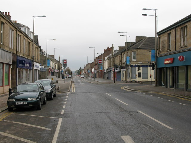 Main Street, Bellshill